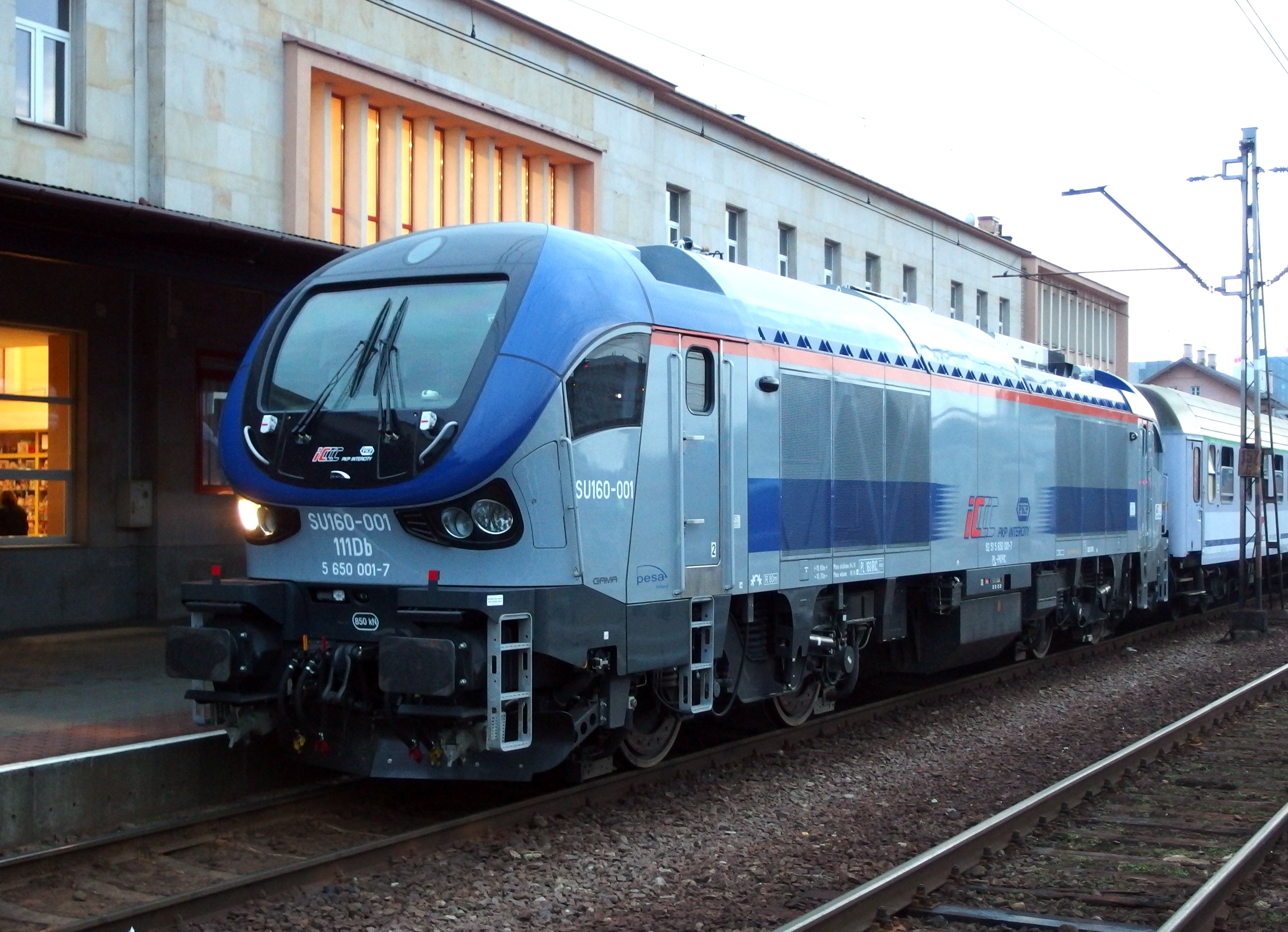 111Db diesel loco in PKP Intercity